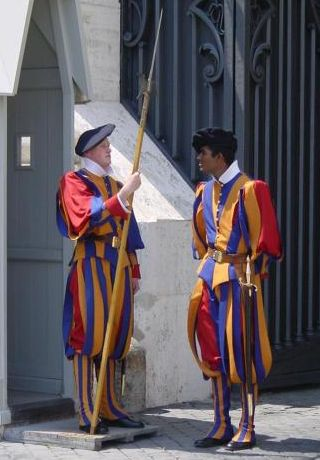 Two Swiss Guards at the Vatican in the dress uniform introduced under Jules Repond (1914)